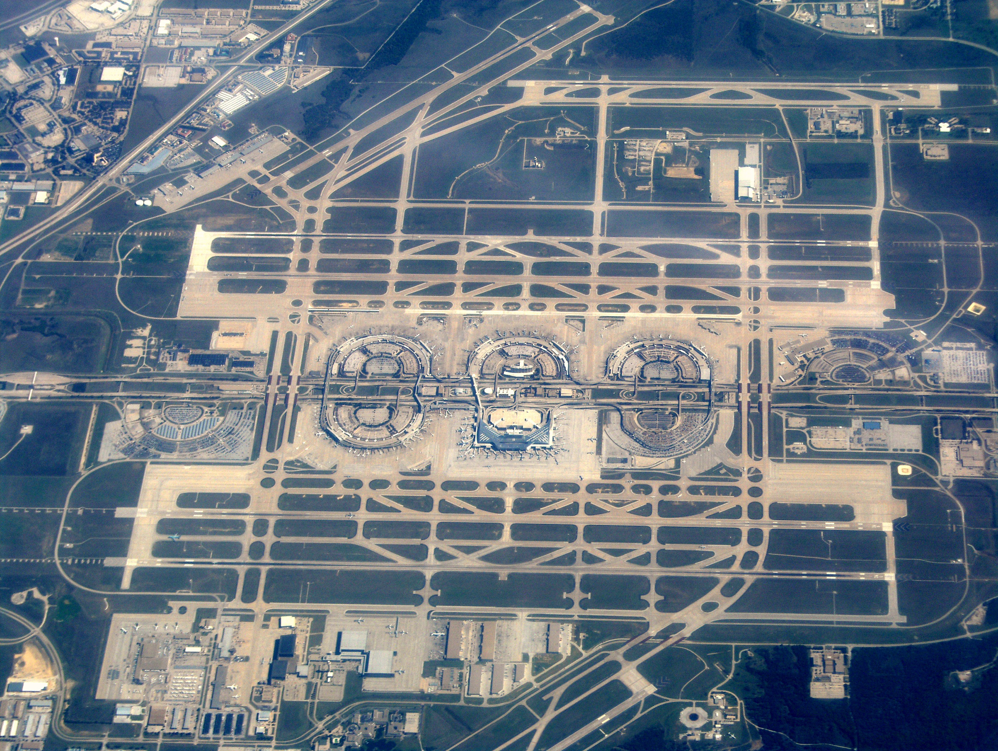 Aerial view of DFW International Airport